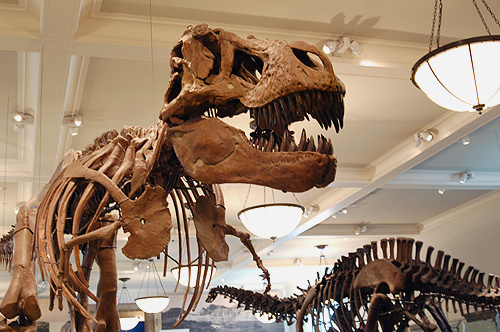 Modified version of Image:Amnh19saurischia.jpg. Cleaned up in Photoshop a bit.